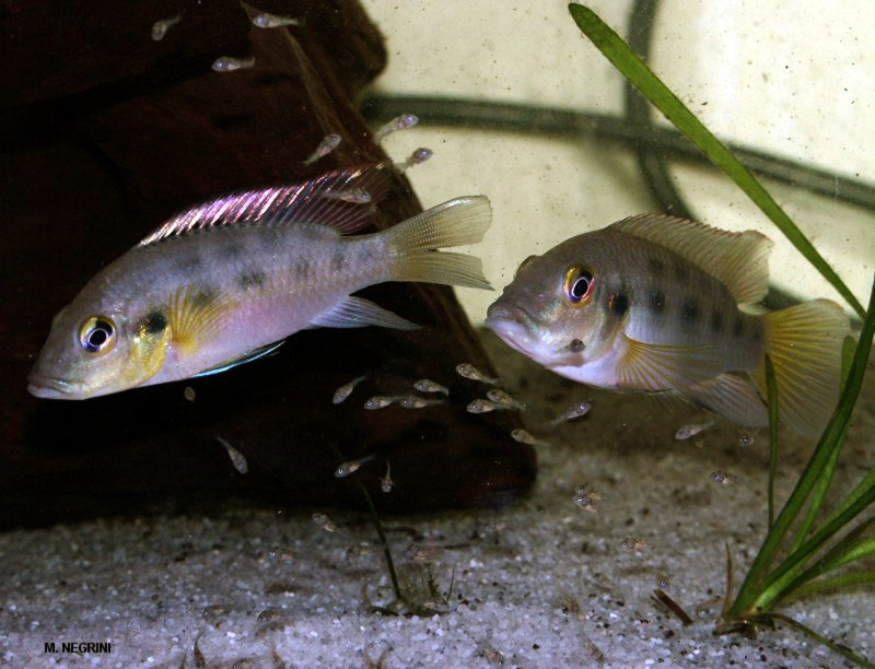 Chromidotilapia guntheri from Bama (Burkina Faso) pair with fry